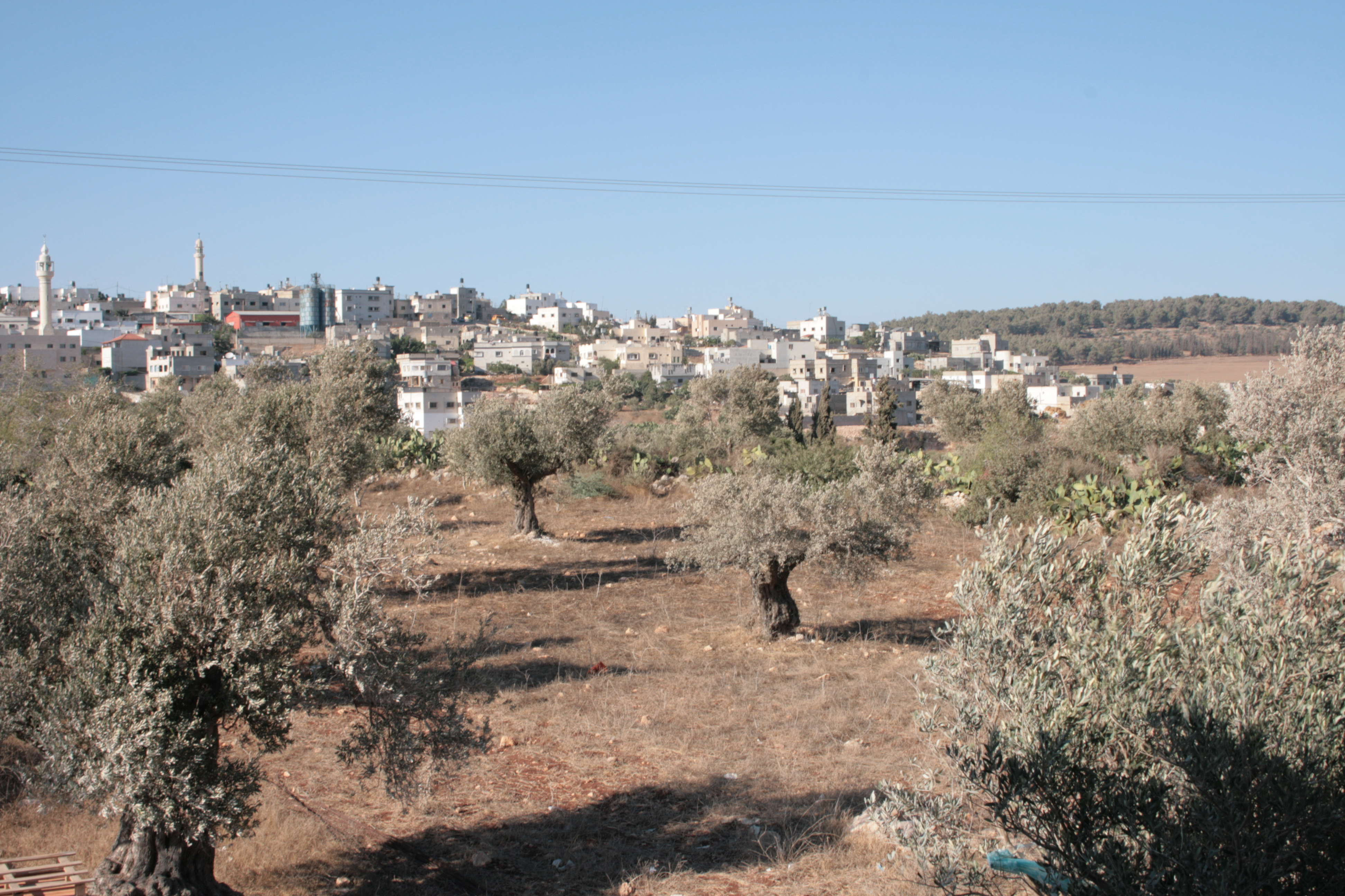 picture of faqqua, taken from south